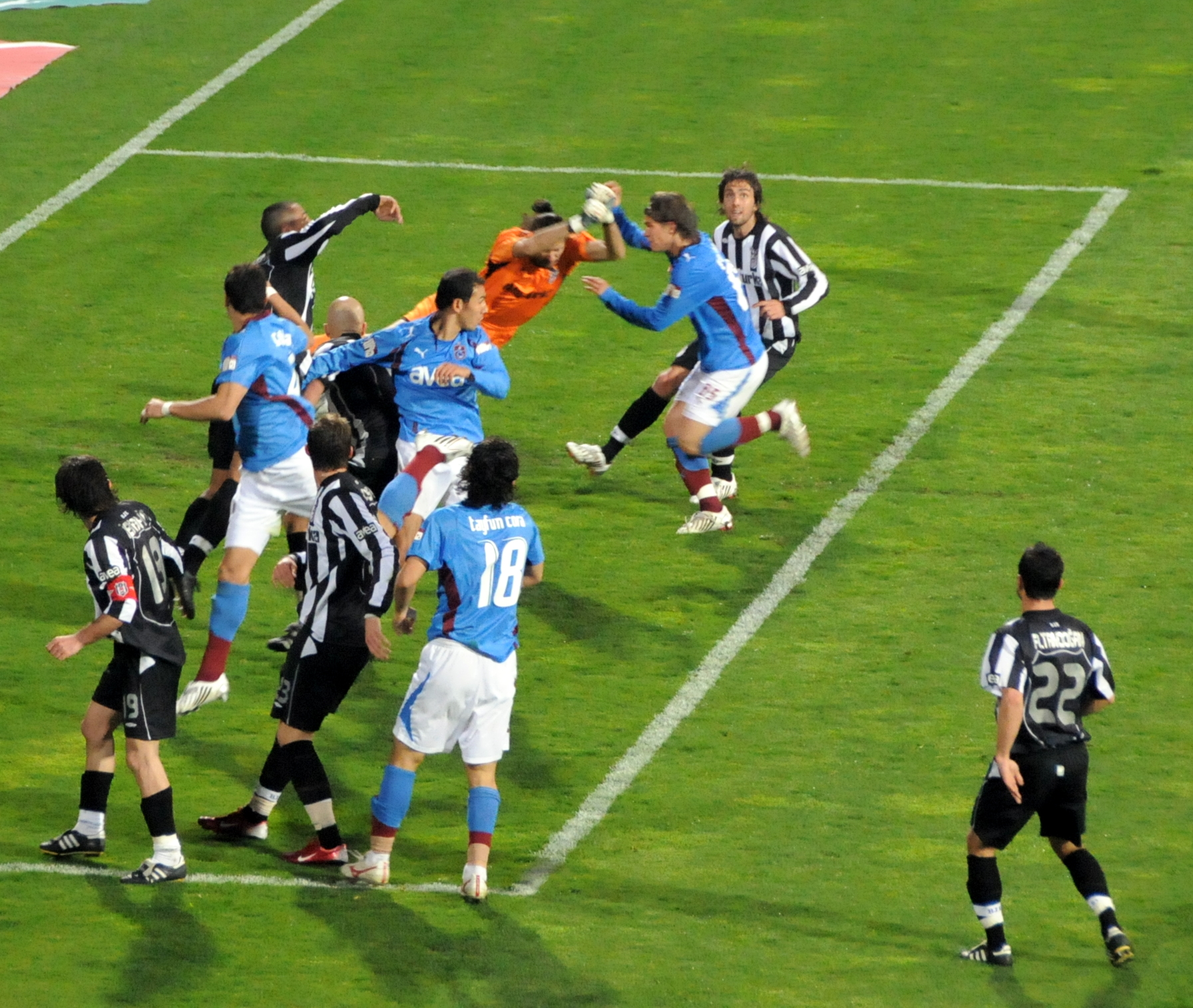 Besiktas JK vs Trabzonspor, Rüstü Recber goalkeeper in orange in the middle.